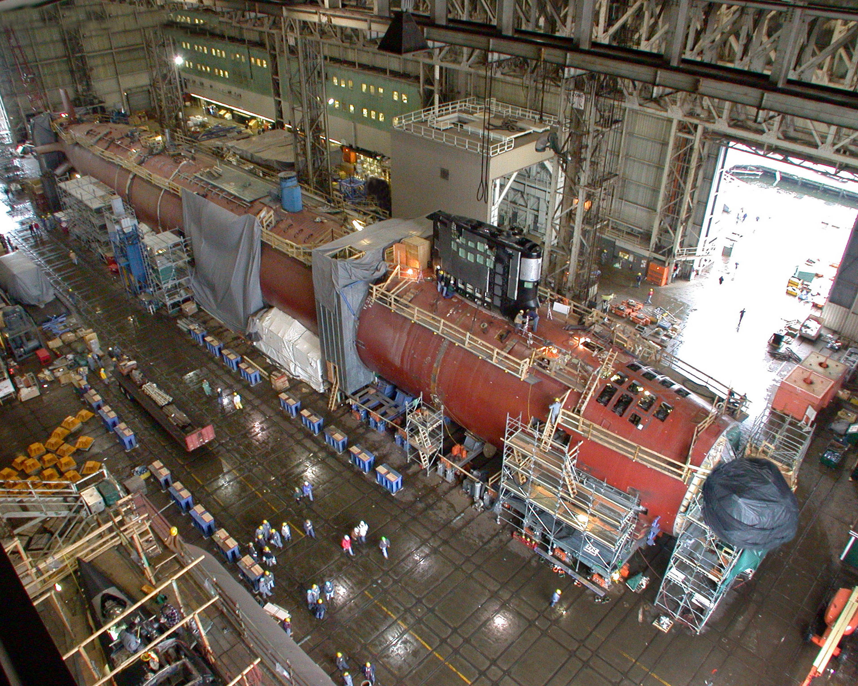 030415-N-0000X-003 Groton Shipyard, Conn. (Apr. 15, 2003) -- The nuclear powered attack submarine Virginia while under construction. Electric Boat Corporation of Connecticut is the lead design authority for the New Attack Submarine. The building of the first Virginia-class submarine started in 1998, four of this class are currently scheduled for construction, USS Virginia (SSN 774), USS Texas (SSN 775), USS Hawaii (SSN 776) and USS North Carolina (SSN 777). Virginia was commissioned in October 2004. U.S. Navy photo. (RELEASED) For more information go to: [1]